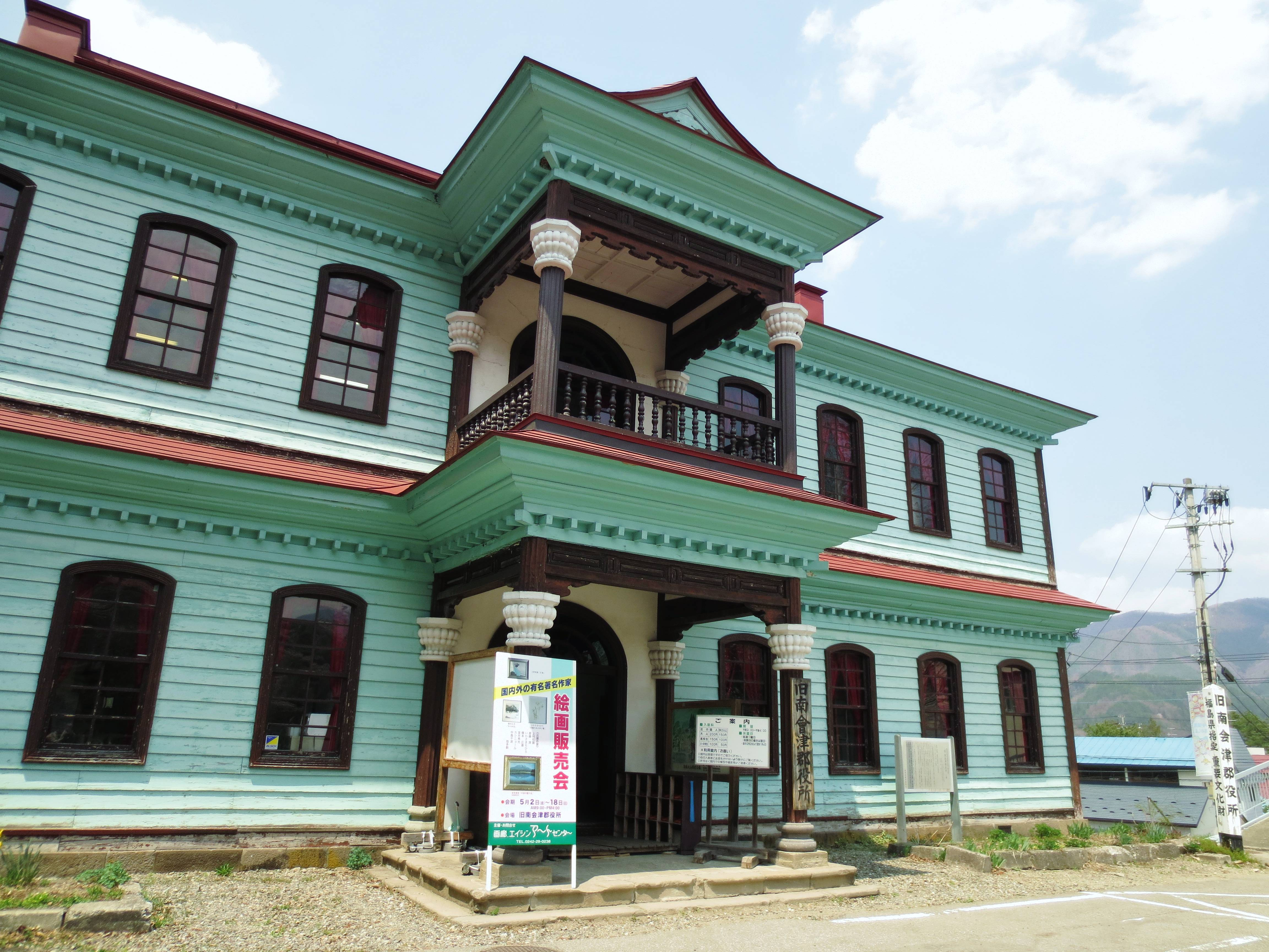 Old Minami Aizu County Hall.